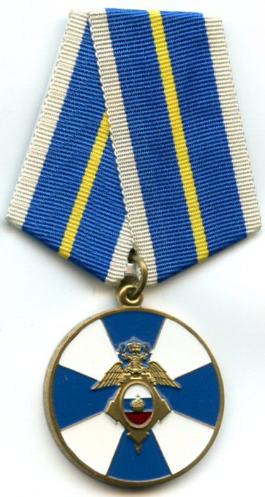 Russian Federation, departmental medal of the Directorate of Special Programs of the President of the Russian Federation for "Strengthening of the Brotherhood of Arms".